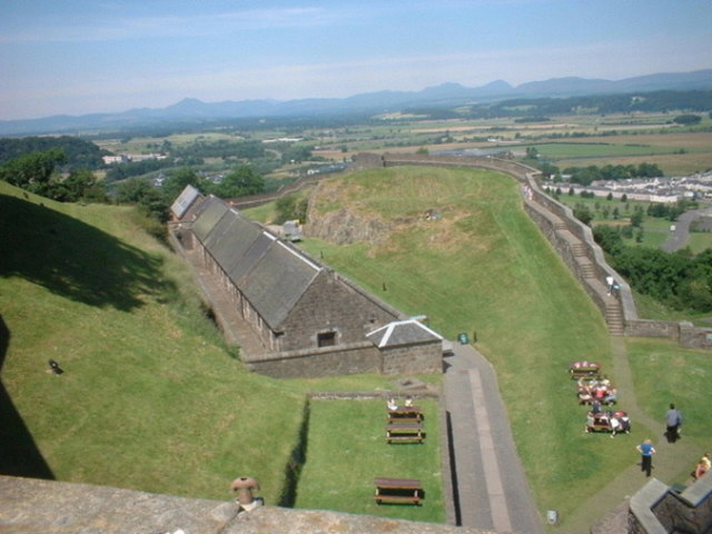 Buildings & Picnic Area. Out buildings used as workshops and picnic area at Stirling Castle.